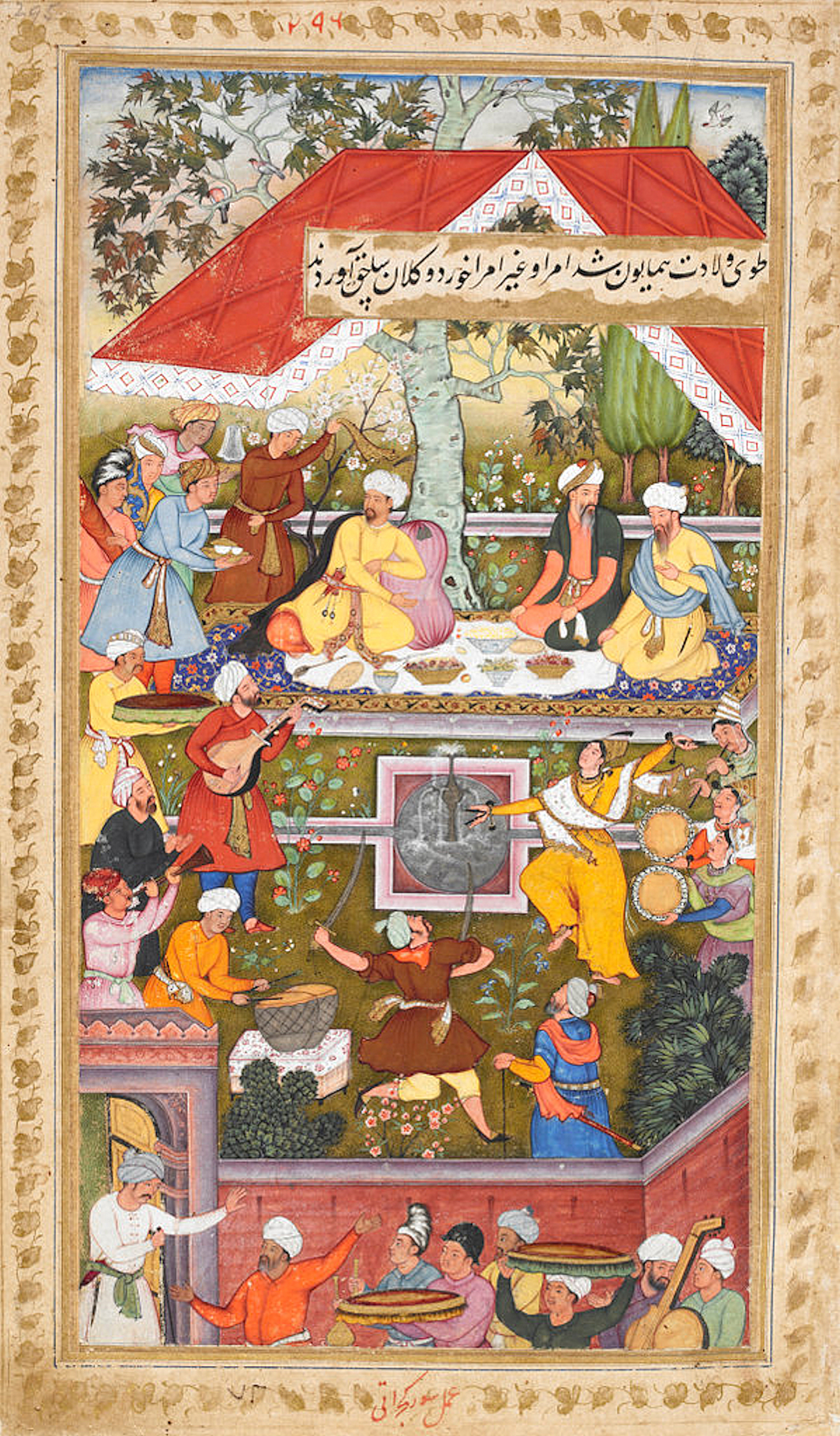 The "Memoirs of Babur" or Baburnama are the work of the great-great-great-grandson of Timur (Tamerlane), Zahiruddin Muhammad Babur (1483-1530). The Baburnama tells the tale of the prince's struggle first to assert and defend his claim to the throne of Samarkand and the region of the Fergana Valley. After being driven out of Samarkand in 1501 by the Uzbek Shaibanids, he ultimately sought greener pastures, first in Kabul and then in northern India, where his descendants were the Moghul (Mughal) dynasty ruling in Delhi until 1858. The miniatures are from an illustrated copy of the Baburnama prepared for the author's grandson, the Mughal Emperor Akbar. It is worth remembering that the miniatures reflect the culture of the court at Delhi; hence, for example, the architecture of Central Asian cities resembles the architecture of Mughal India. Nonetheless, these illustrations are important as evidence of the tradition of exquisite miniature painting which developed at the court of Timur and his successors. Timurid miniatures are among the greatest artistic achievements of the Islamic world in the fifteenth and sixteenth centuries. Illustrations of Mughals from the Baburnama